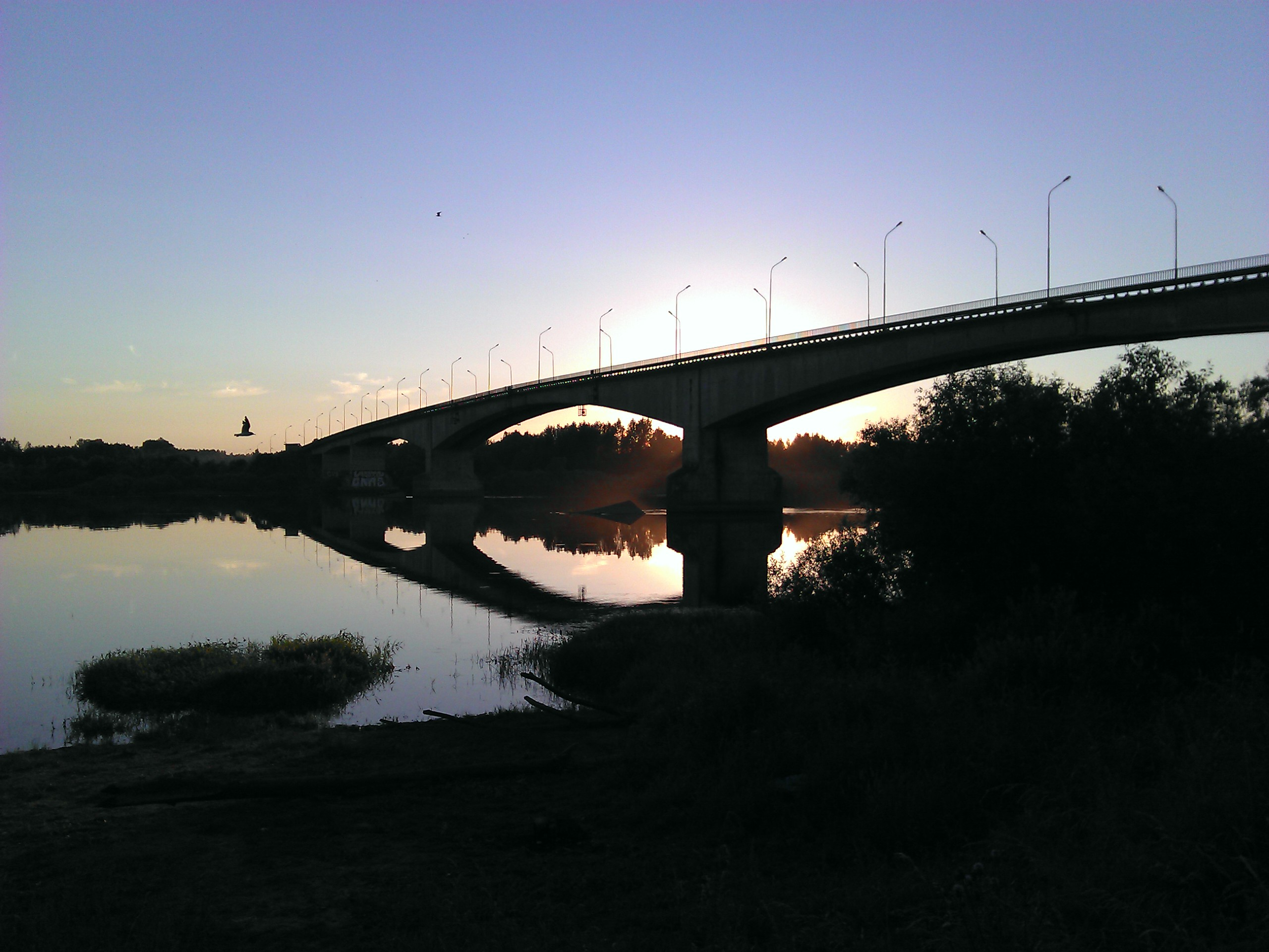 An automobile bridge across the river Volkhov, Kirishi, Russia